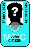 Sample Format: Maritime Security Identification Card